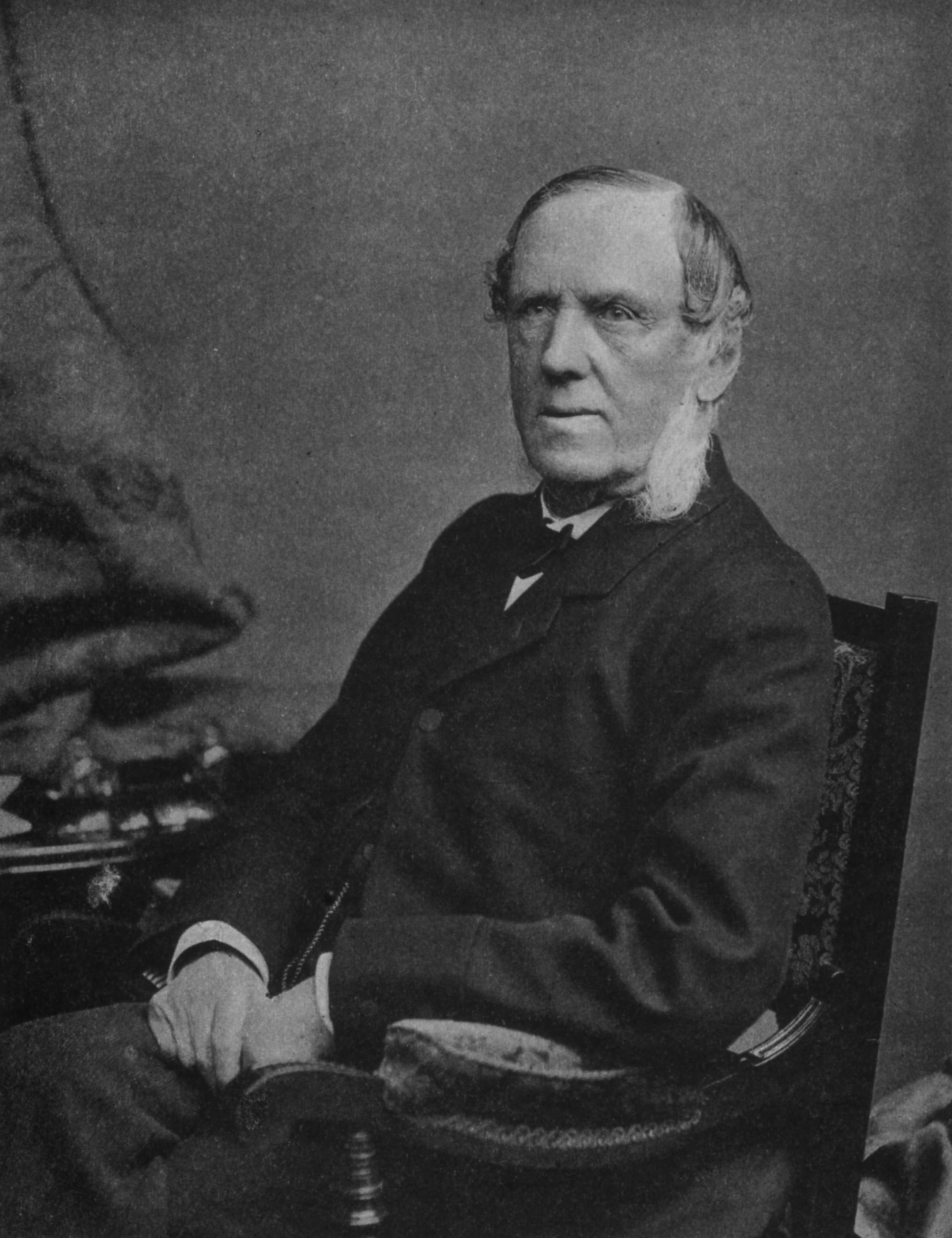 George Dixon (1820 – 1898) was a councillor, Mayor, and MP in Birmingham, England. He was a major proponent of education for all children.